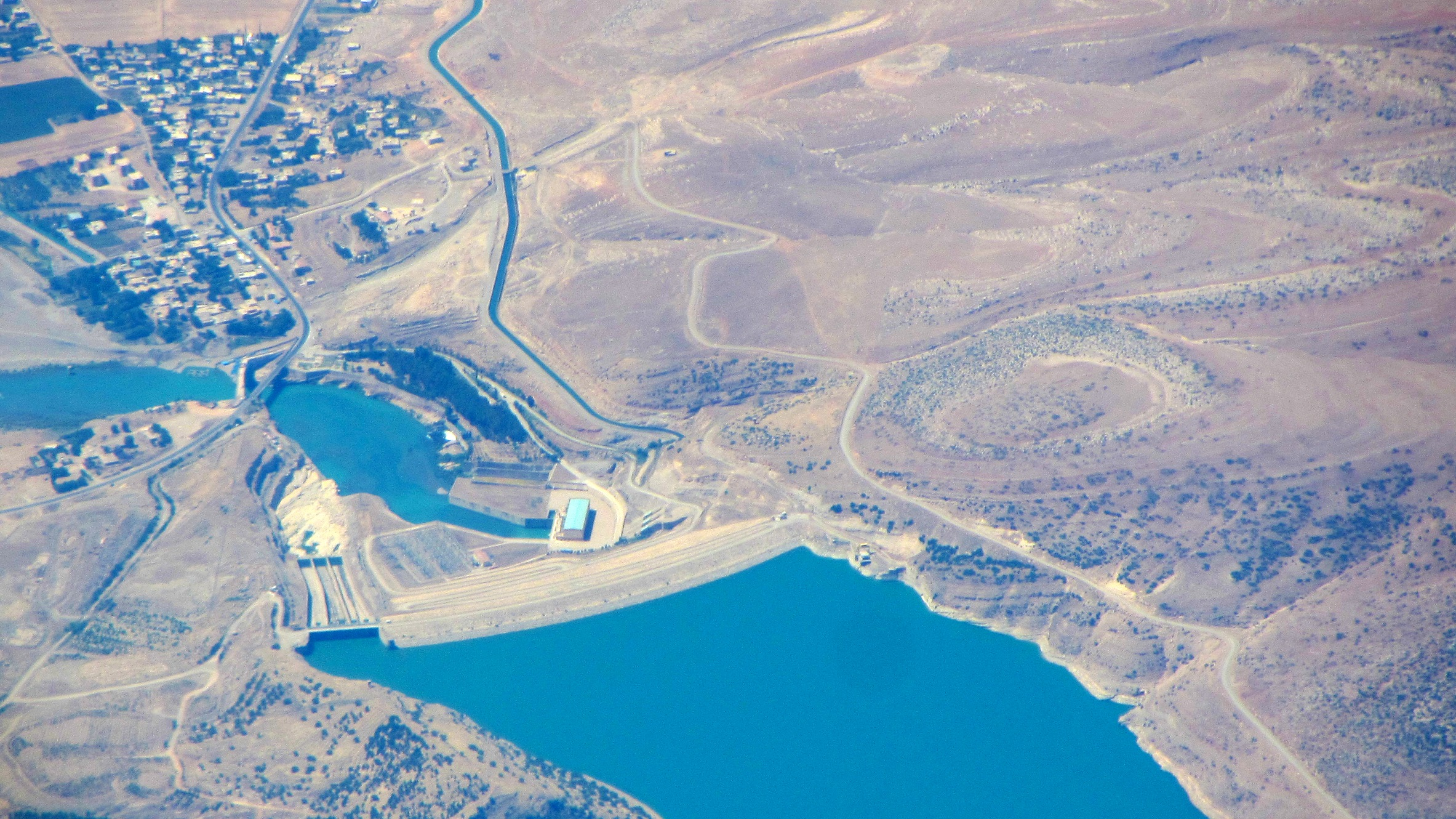 Aerial view of the Batman Dam, Turkey.